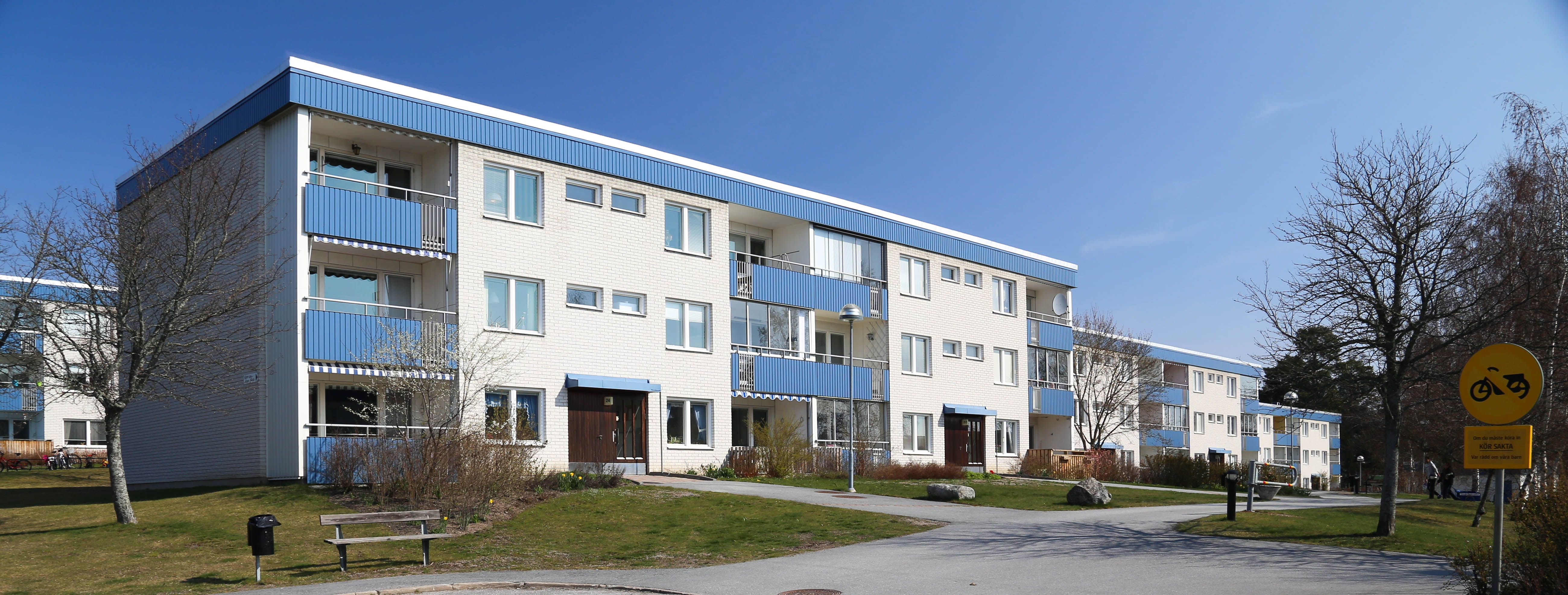 Houses made of calcium-silicate bricks in the beginning of the 70´s. These multi-dwelling units with three floors were the most common house built in Sweden between 1965-1975.